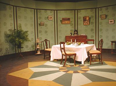 A Photograph of the Set for "An Inspector Calls"